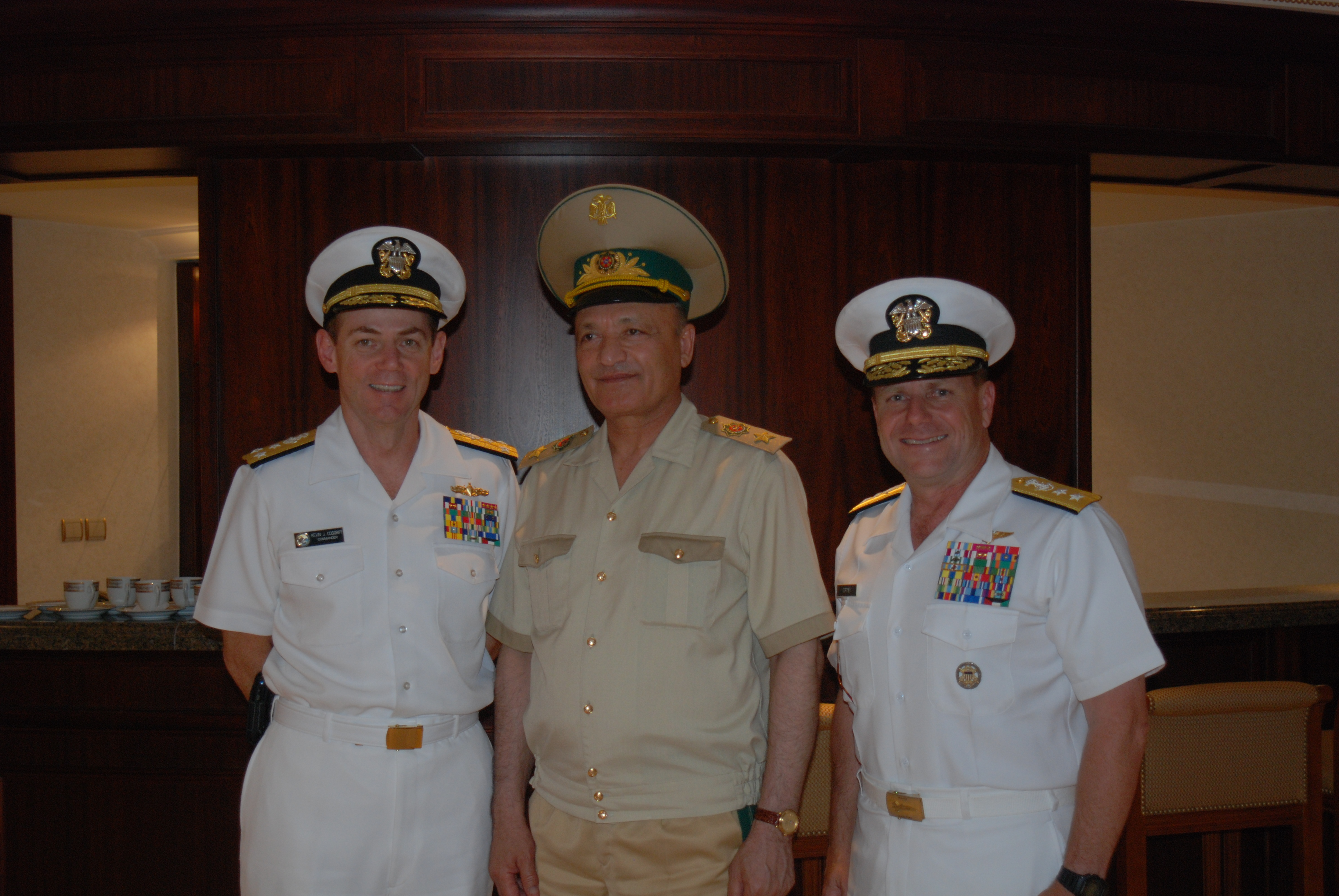 Vice Adm. Kevin Cosgriff (left), commander, U.S. Naval Central Command, and Rear Adm. William Gourtney (right), prospective commander, U.S. Naval Central Command, meet with minister of defense, Gen. Agageldi Mammetgeldiyev, general of the army at the ministry of defense in Ashgabat, Turkmenistan June 12.